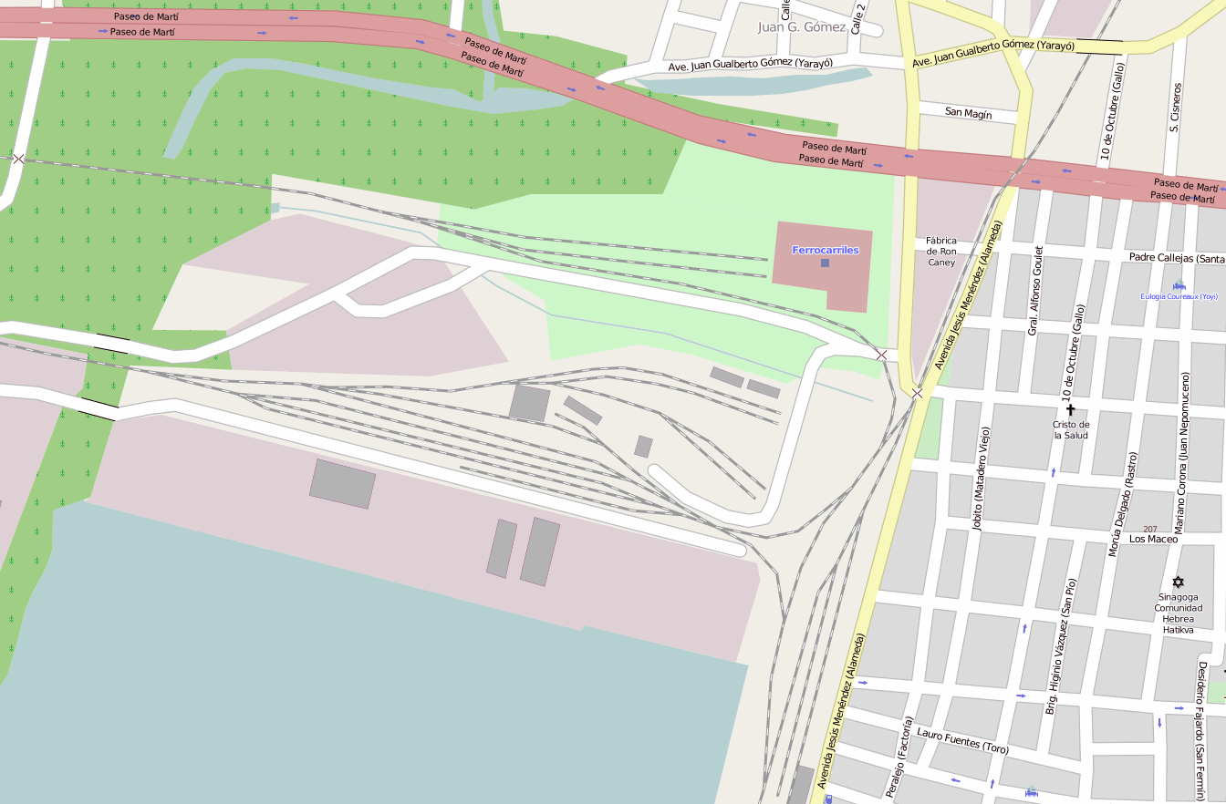 This map may be incomplete, and may contain errors. Don't rely solely on it for navigation.